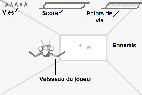 Interface of the video game Iridion 3D (FR).